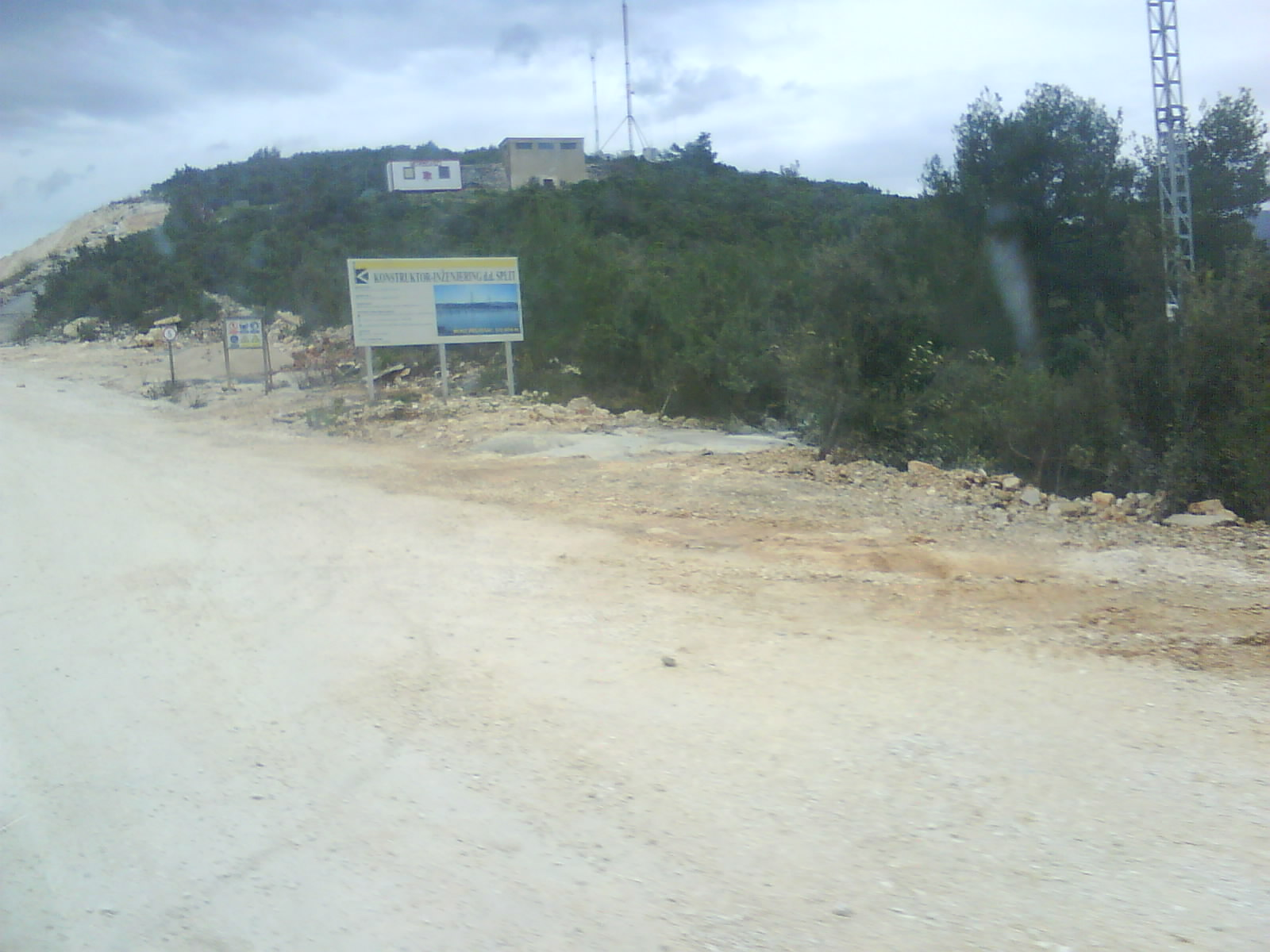 Village of Komarna, closer to Neum